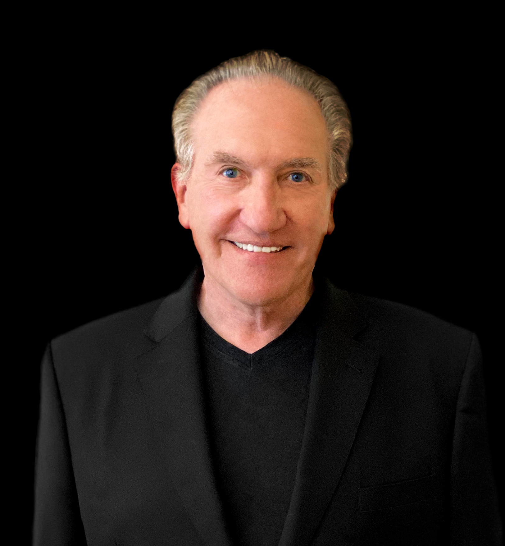 Portrait image of Thalheimer from Flickr